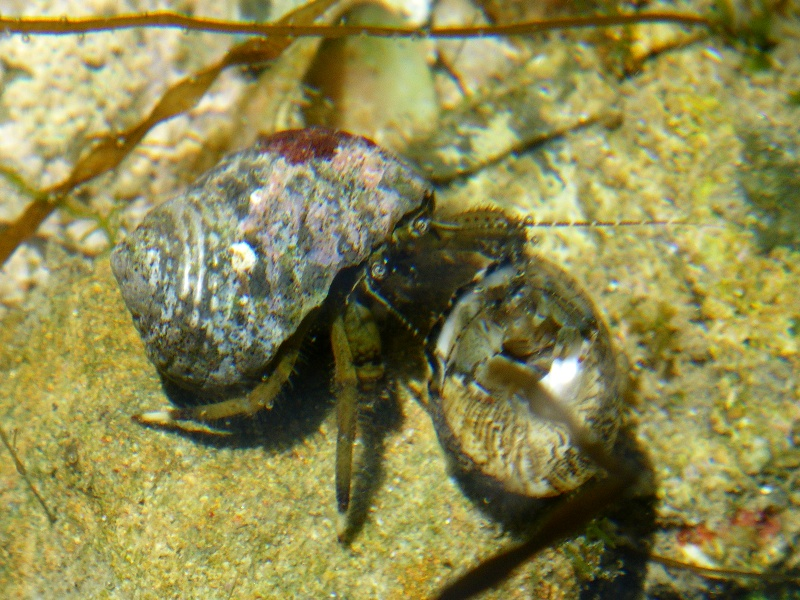 Pagurus filholi (De Man, 1887). at Nagasaki